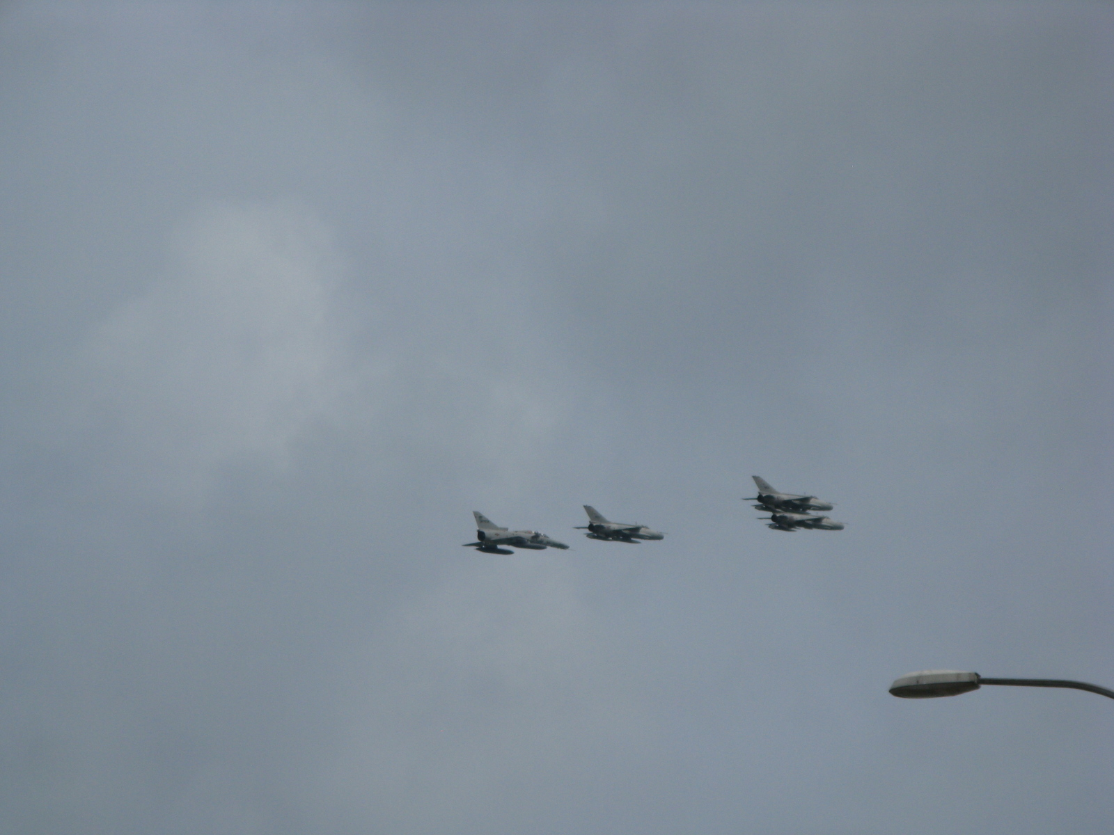 F-7GS Interceptor & Kfir TC2 Fighter-bomber Aircraft - Sri Lanka Air Force